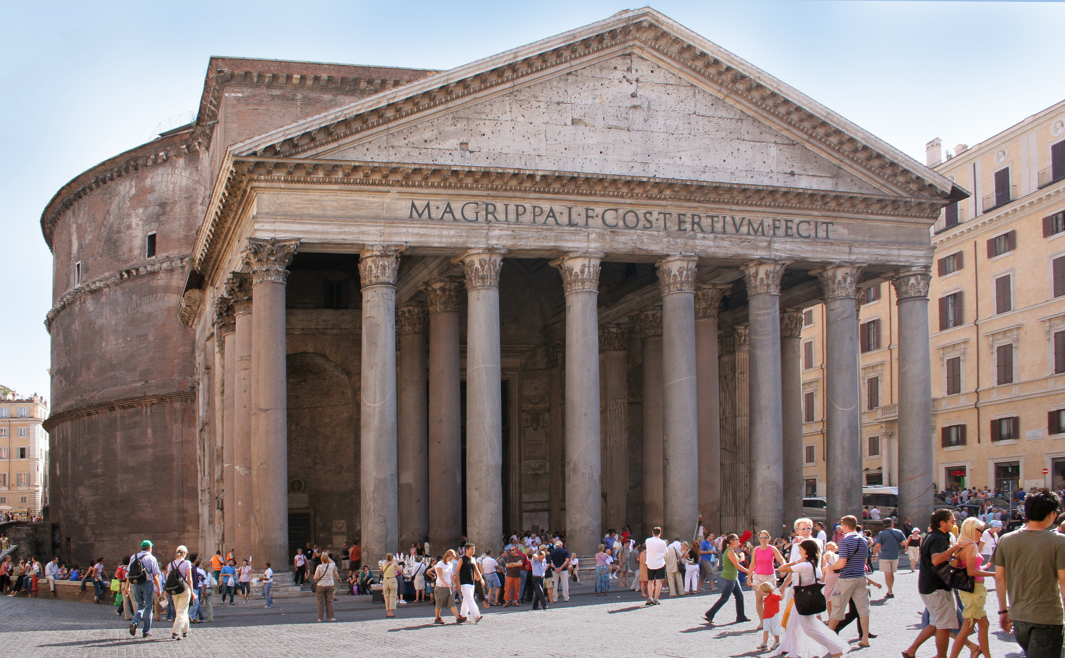 Pantheon (Rome) - Front